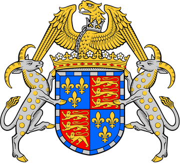 Heraldic achievement of St John's College, Cambridge, being the arms of the foundress Lady Margaret Beaufort.